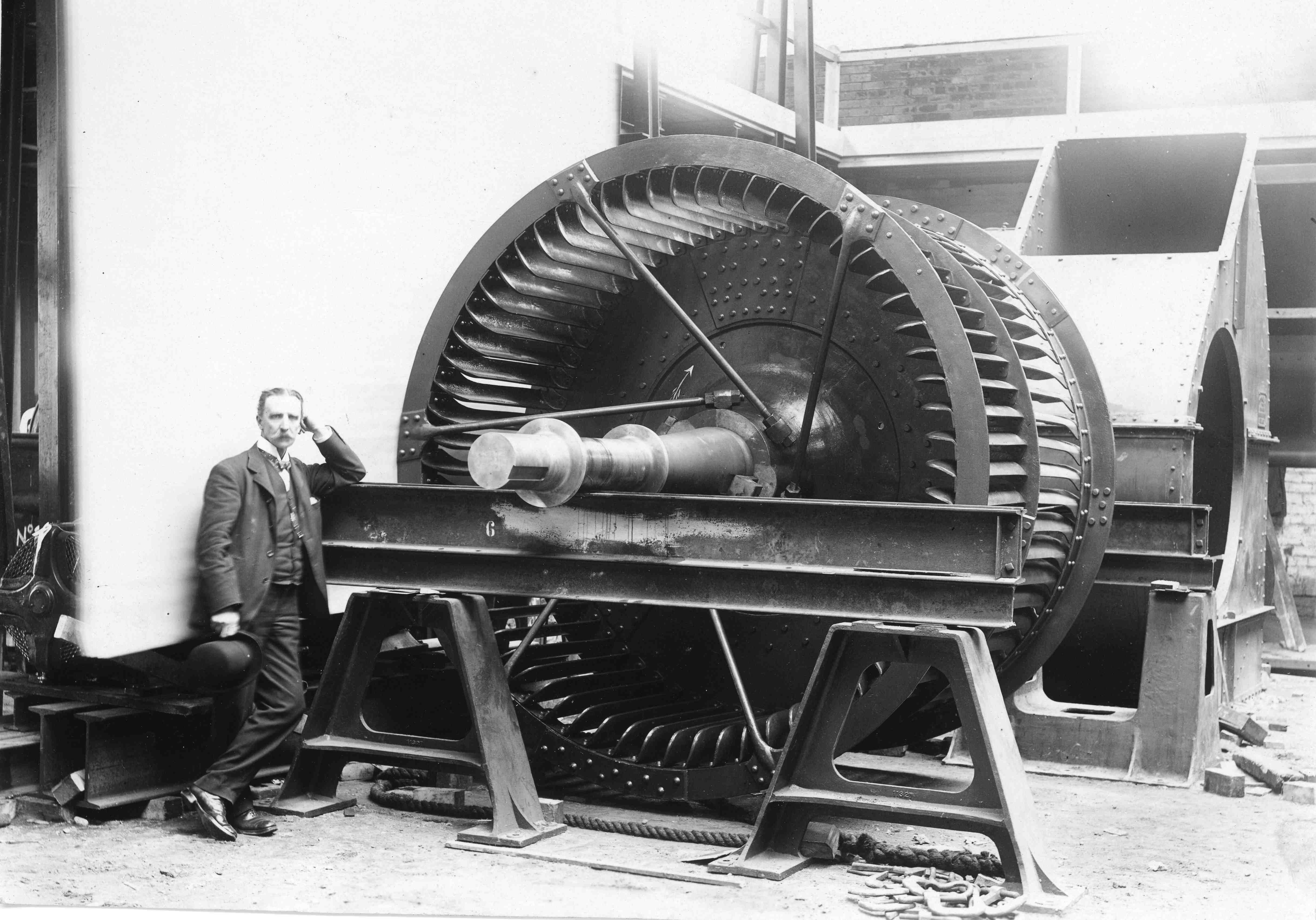 Samuel Cleland Davidson with a huge centrifugal fan he designed and manufactured, probably for ventillating a mine shaft, at the Sirocco Engineering Works, Belfast. This is a scan of a family photo in the Bleakley Family archive owned by the copyright holder.